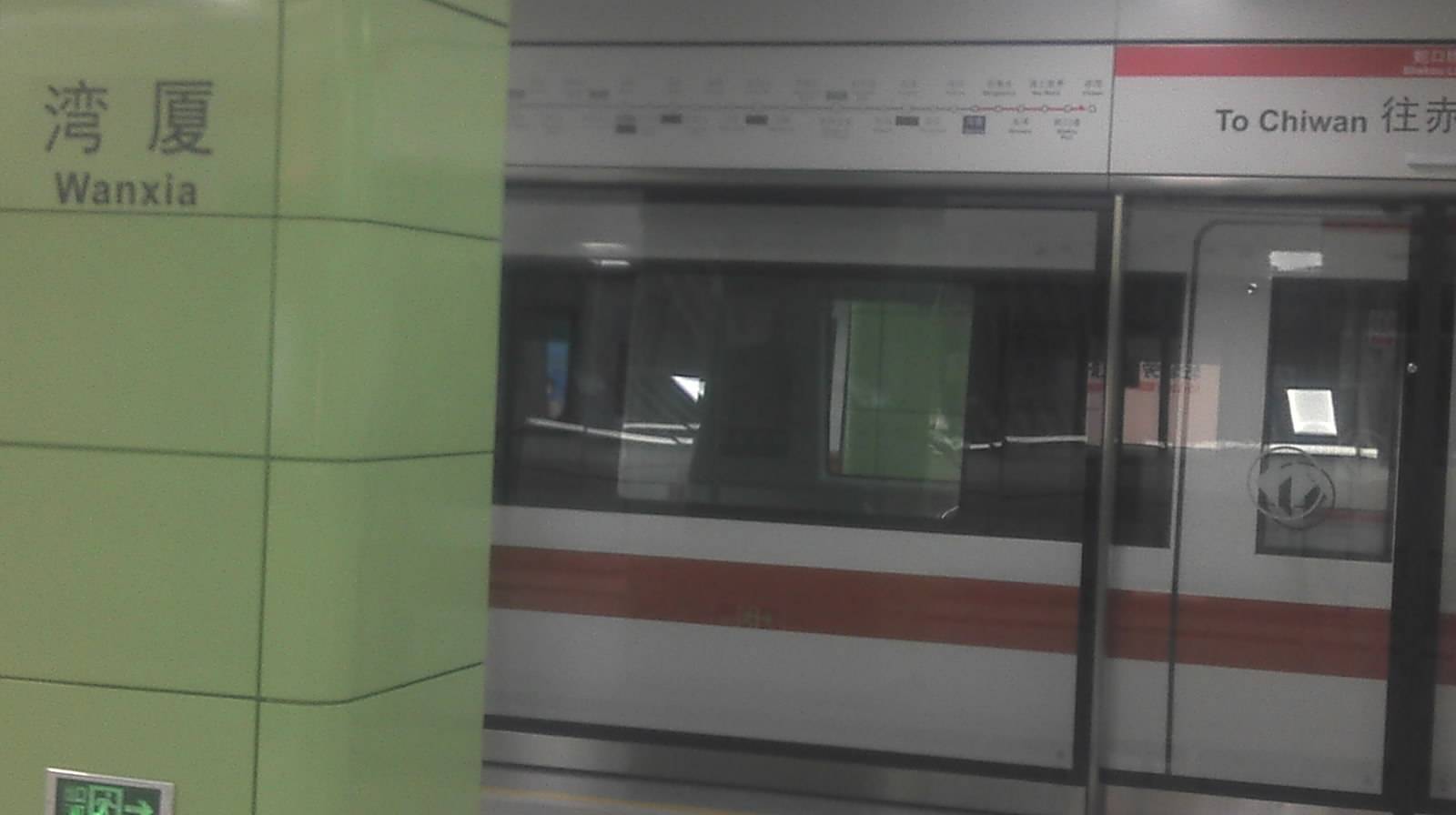 This photo was taken as Oct 22, 2011.